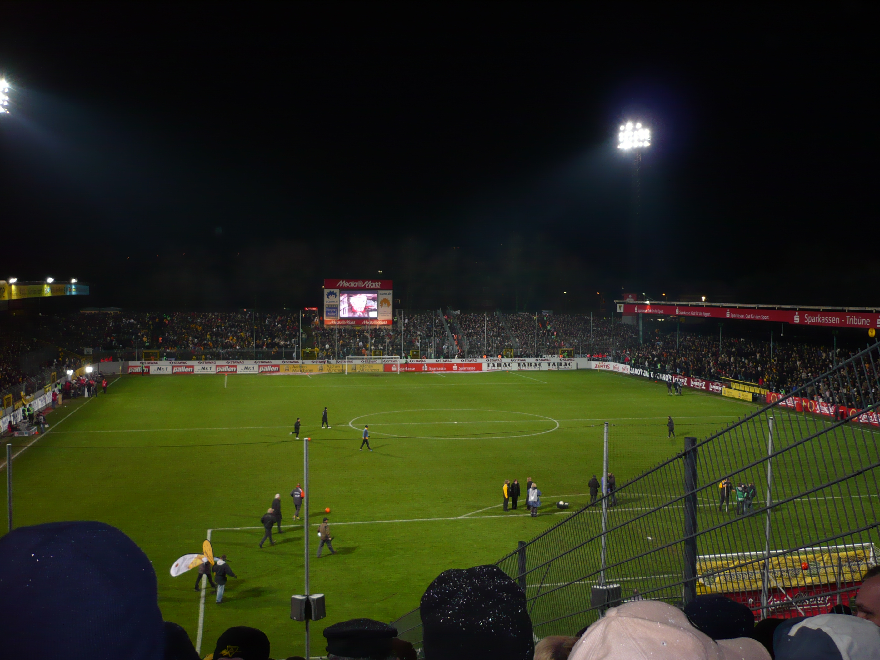 Tivoli, Aachen, Floodlights